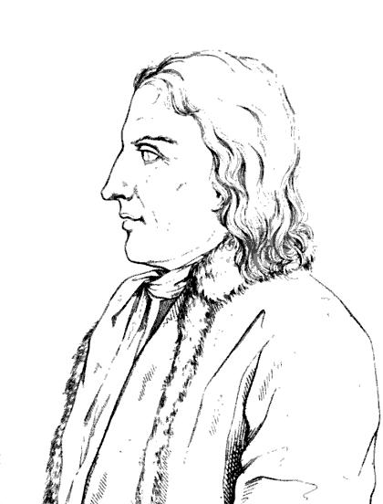 Portrait of Giulio Cesare Becelli.